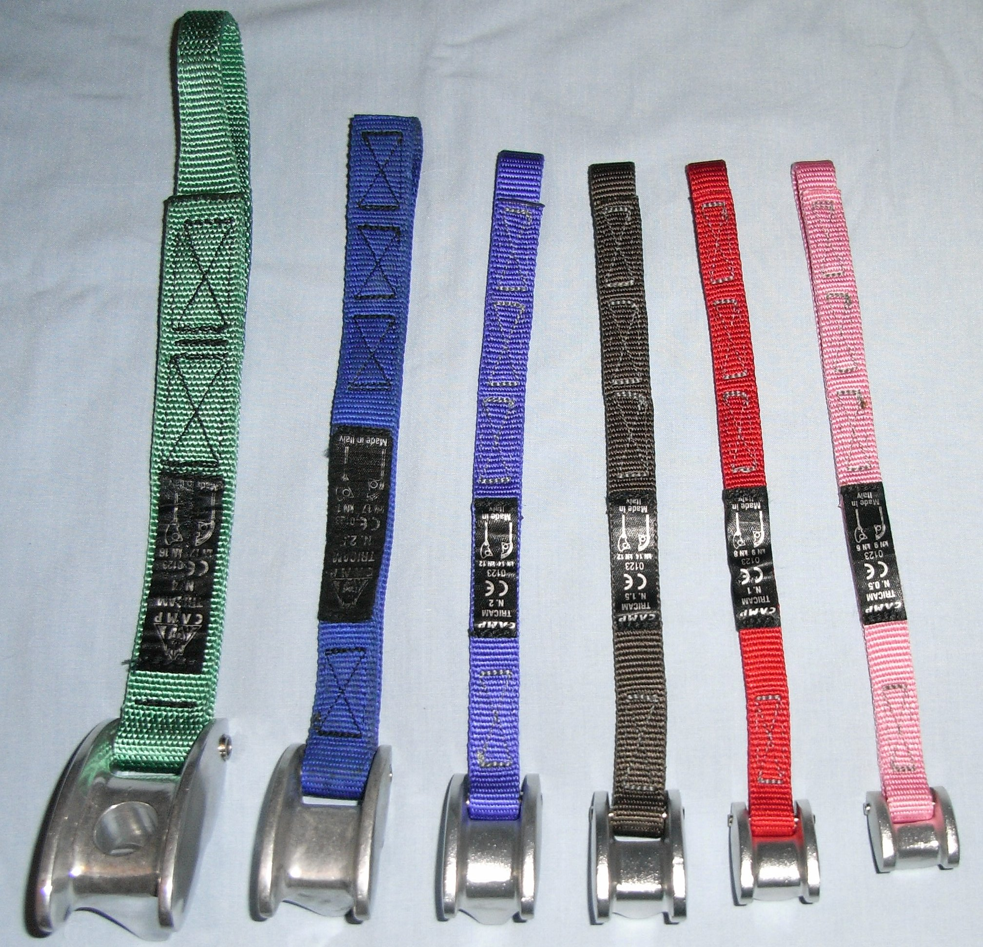 tricams form 0,5 to 2.5 and no. 4